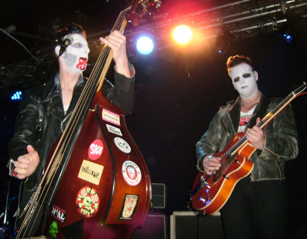 Bloodsucking Zombies From Outer Space gig in Tampere's Club Sin, May 2009